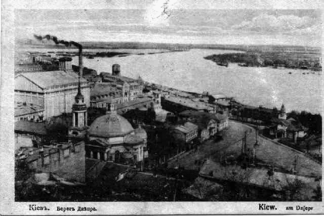 Post Square, Kiev, Podol.